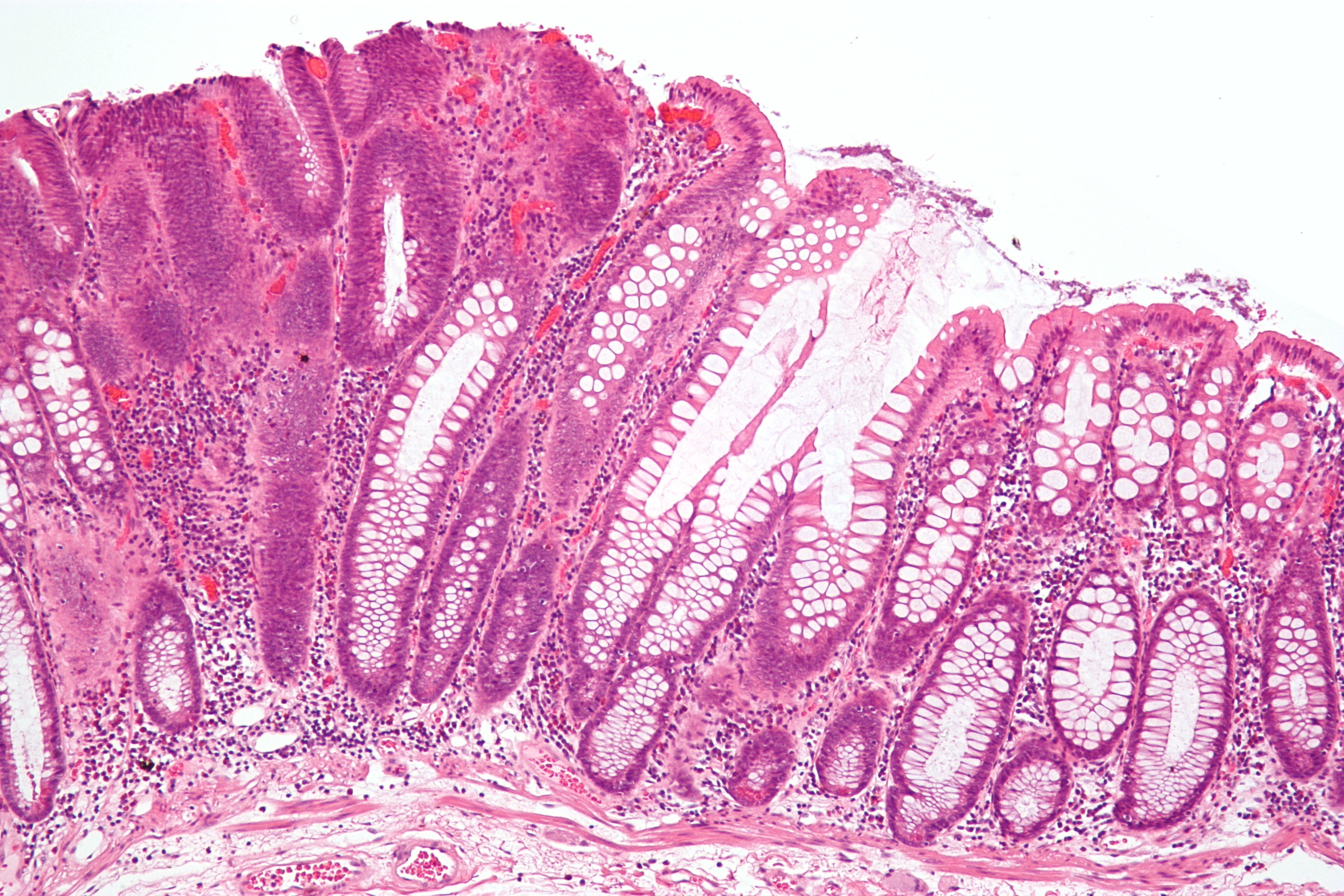 Intermediate micrograph of a colorectal tubular adenoma without high grade dysplasia. H&E stain. The lesional tissue, i.e. dysplastic epithelium, is seen on the left of the image and characterized by: Nuclear hyperchromatism (i.e. dark purple nuclei) - that extends to the surface, Nuclear crowding (i.e. nuclei are bunched-up), Elliptical/cigar-shaped nuclei and loss of goblet cells/reduction in the number of goblet cells. Normal colonic type epithelium is seen on the right of the image and characterized by small round nuclei and abundant goblet cells. Related images The same case: Low mag. Intermed. mag. High mag. Another case: High mag.